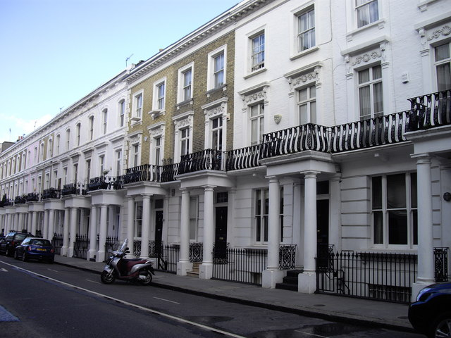 Houses in Hollywood Road It is not very often that there is a gap in the parked cars in this busy part of Chelsea to take a photograph of the houses.